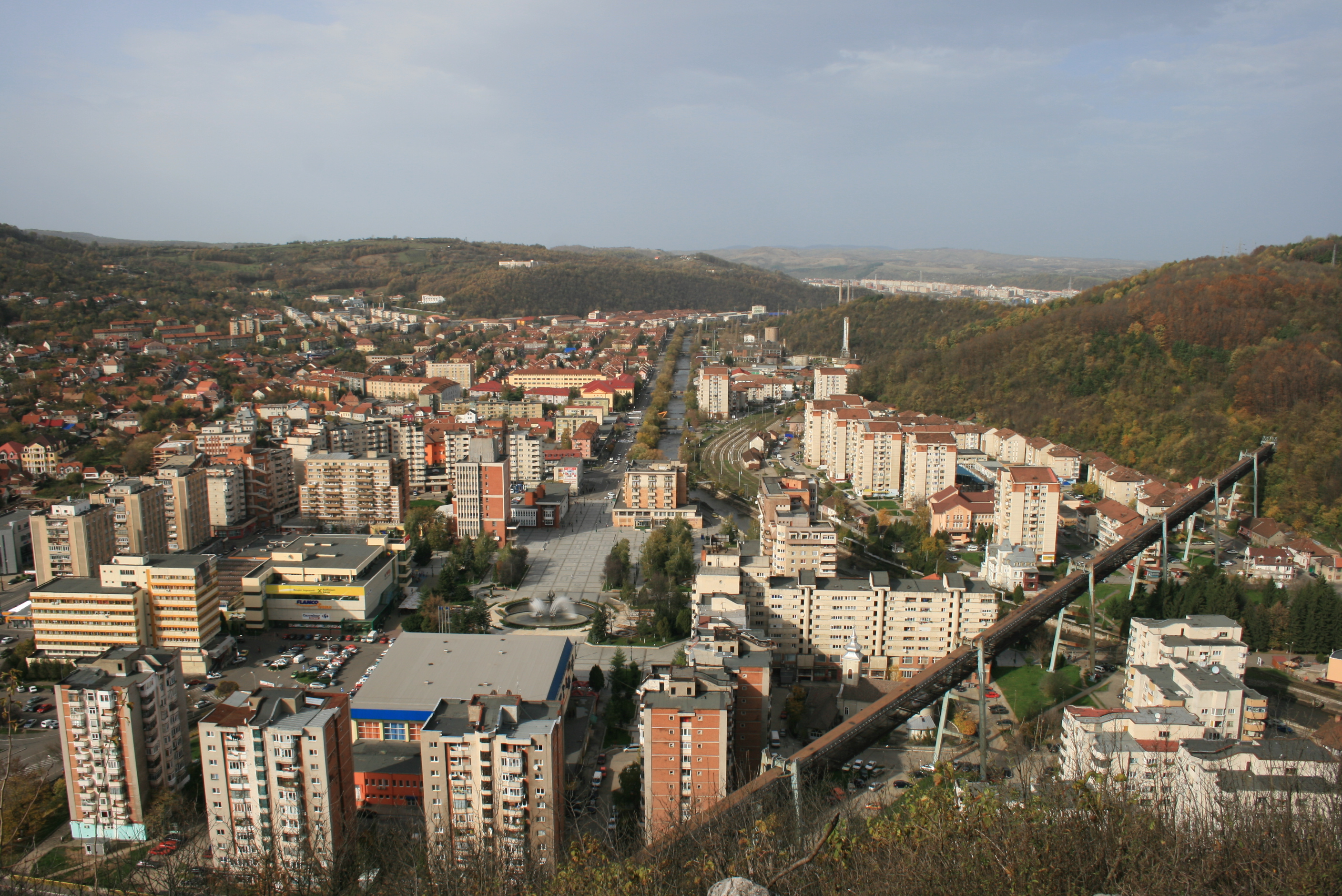 Panoramic view from Golului Hill over Resita Downtown, in the background: the New Resita.